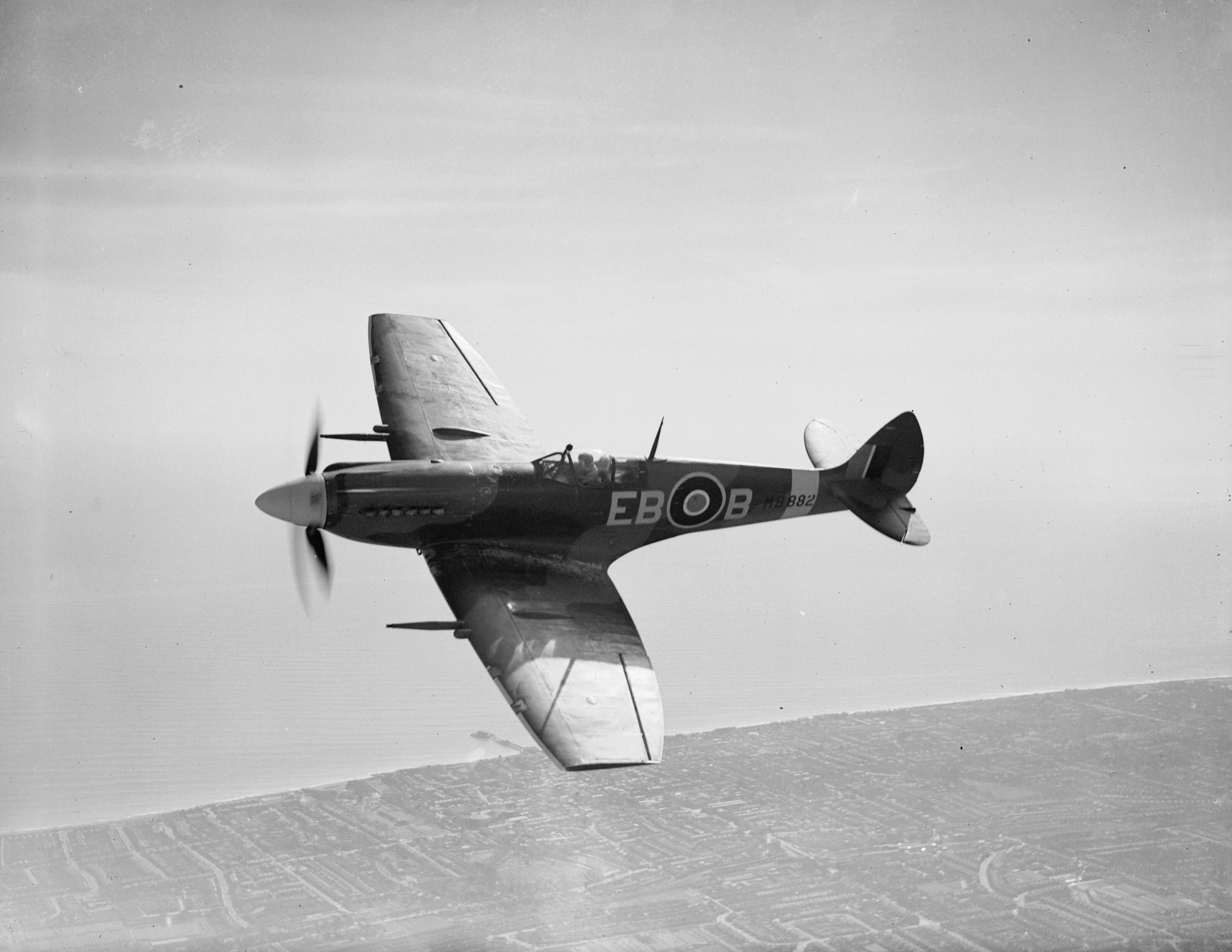 Aircraft of the Royal Air Force, 1939-1945- Supermarine Spitfire. Spitfire F Mark XII, MB882 ‘EB-B’, of No. 41 Squadron RAF based at Friston, Sussex, in flight over Eastbourne.